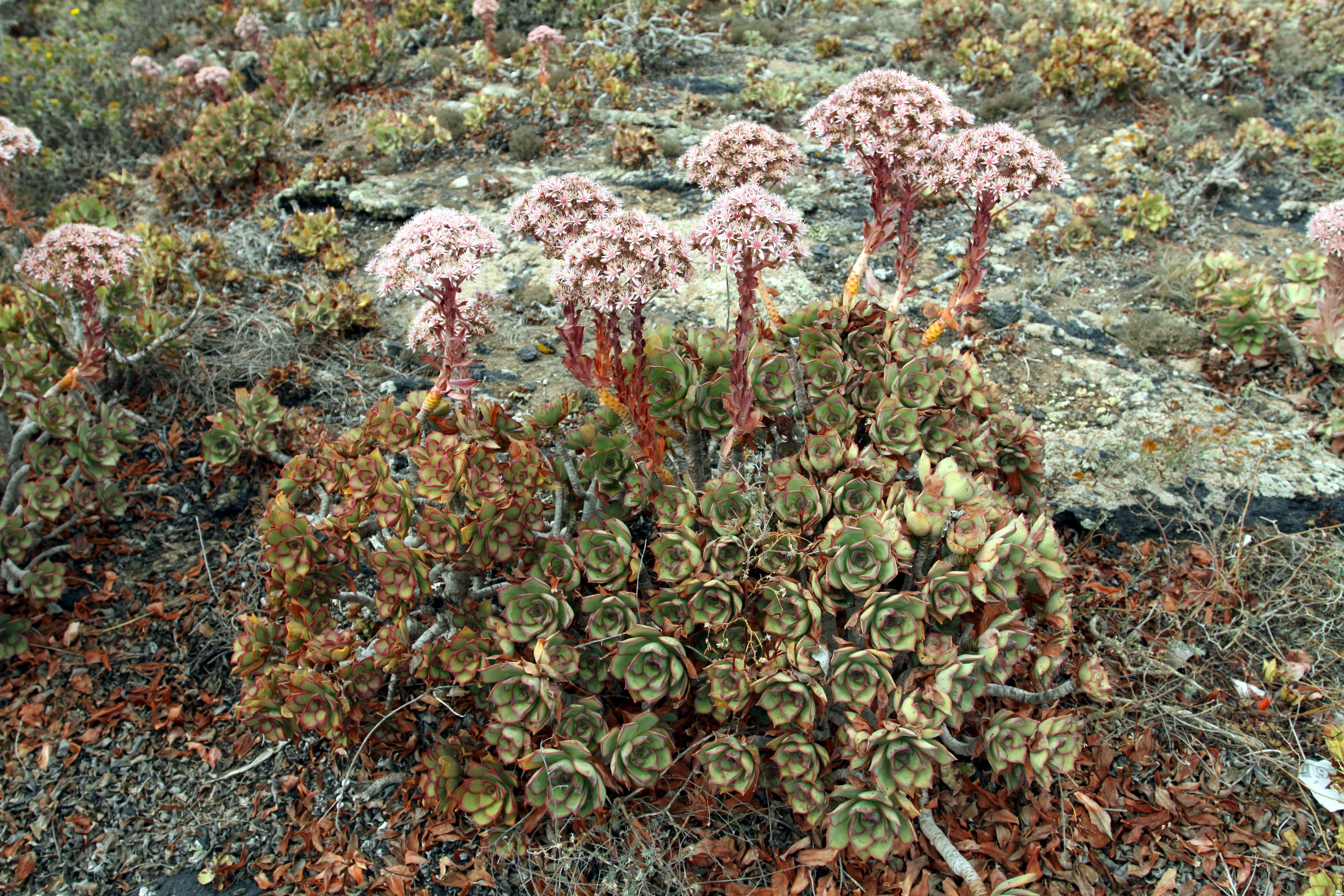 Aeonium lancerottense on the outskirts of Mozaga village on Lanzarote, The Canary Islands, Spain